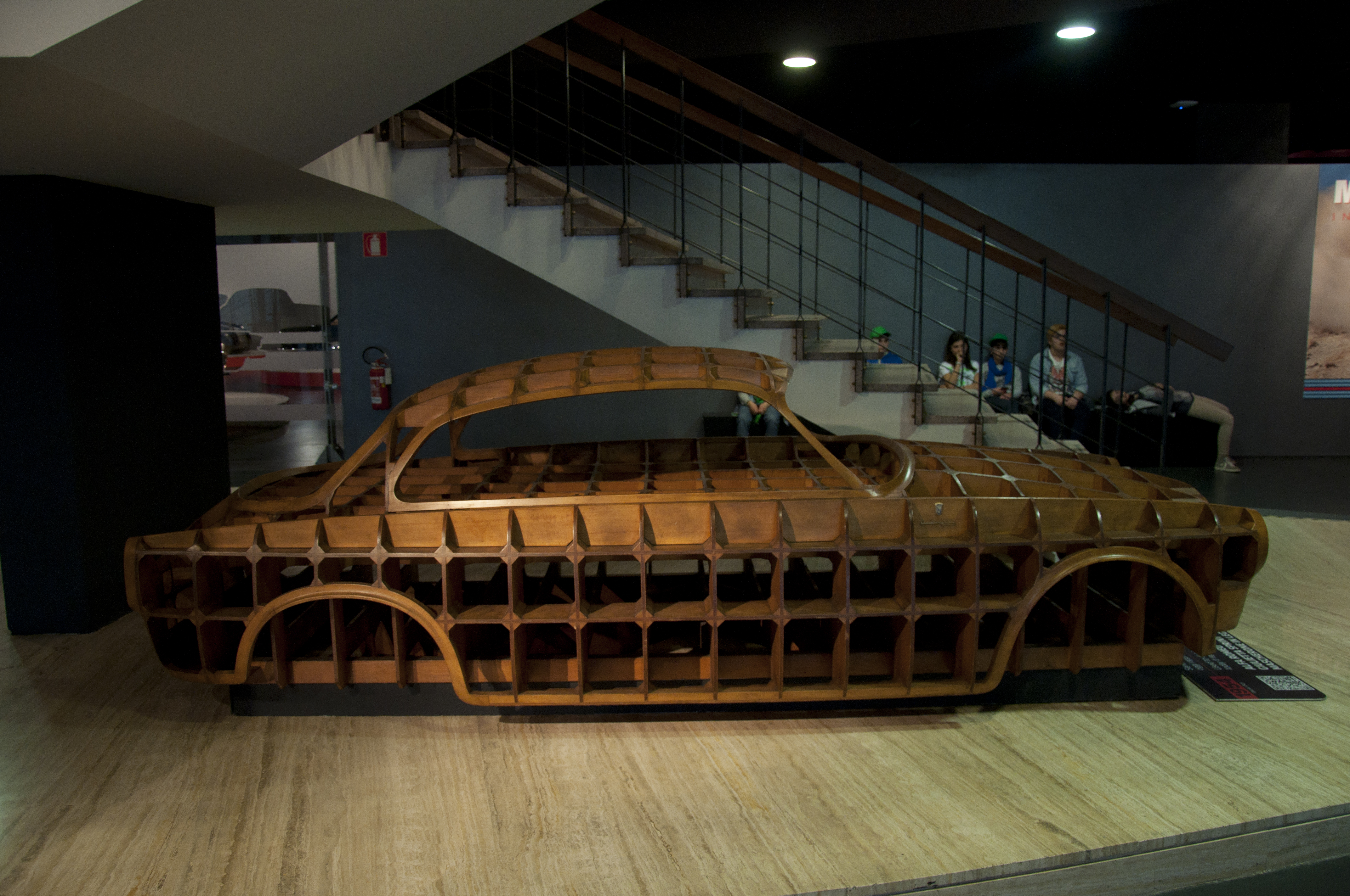 Bodywork's mock-up of 1954 Alfa Romeo Giulietta Sprint at the National Automobile Museum (MAUTO) in Turin, Italy.